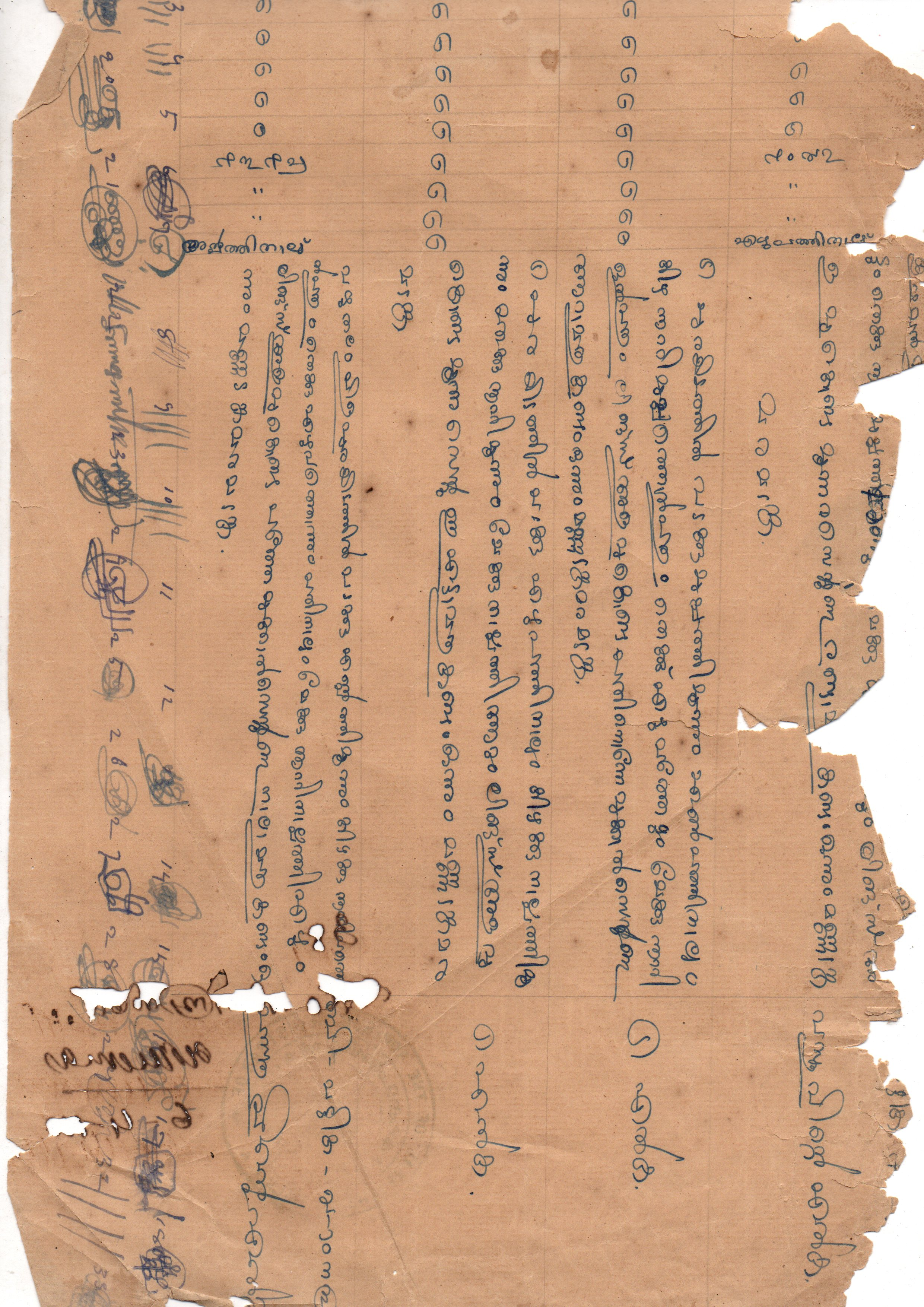 document cont